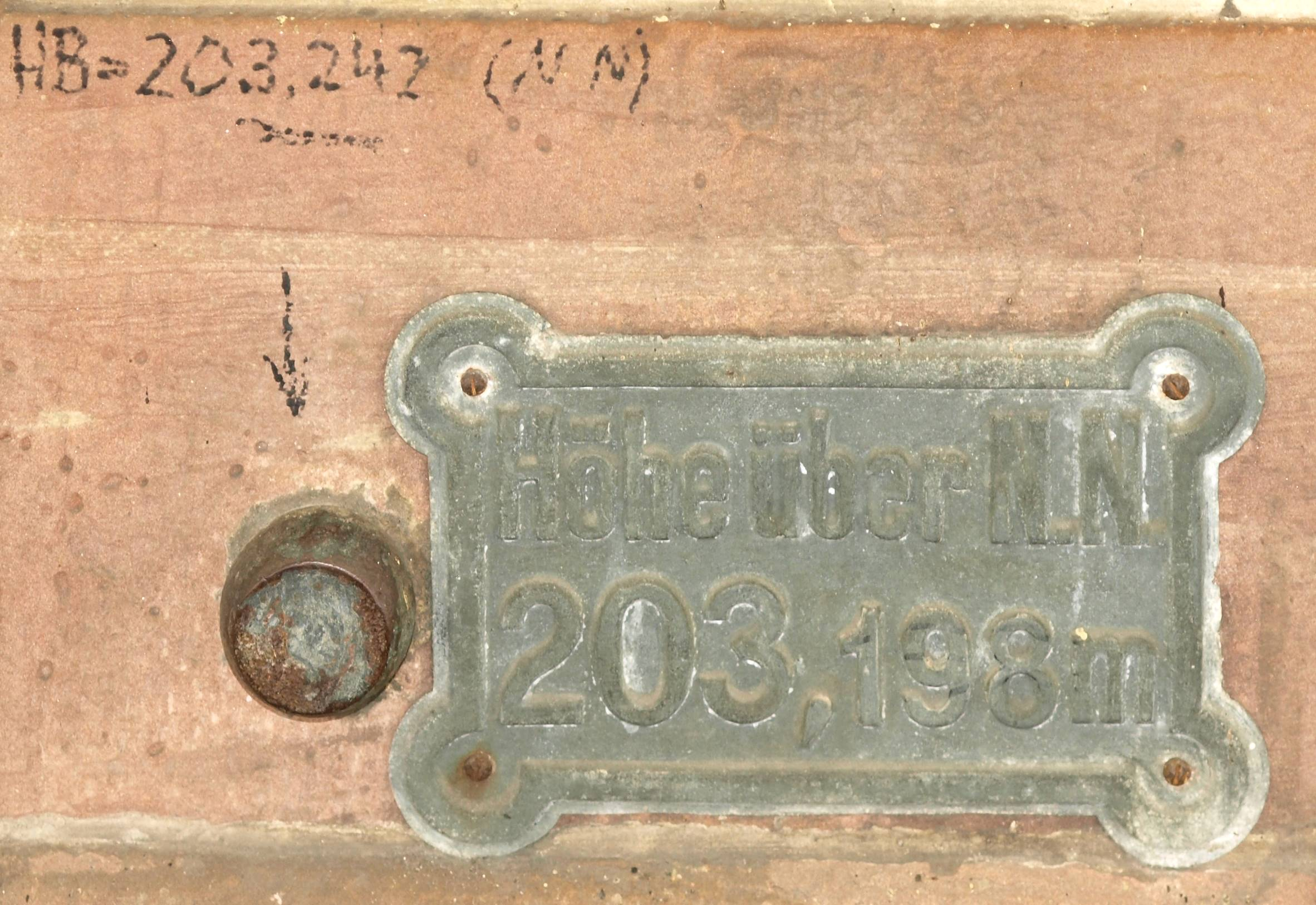 Benchmark (surveying) at the train station in Bad Hersfeld vom 1883, newly measured in 2007